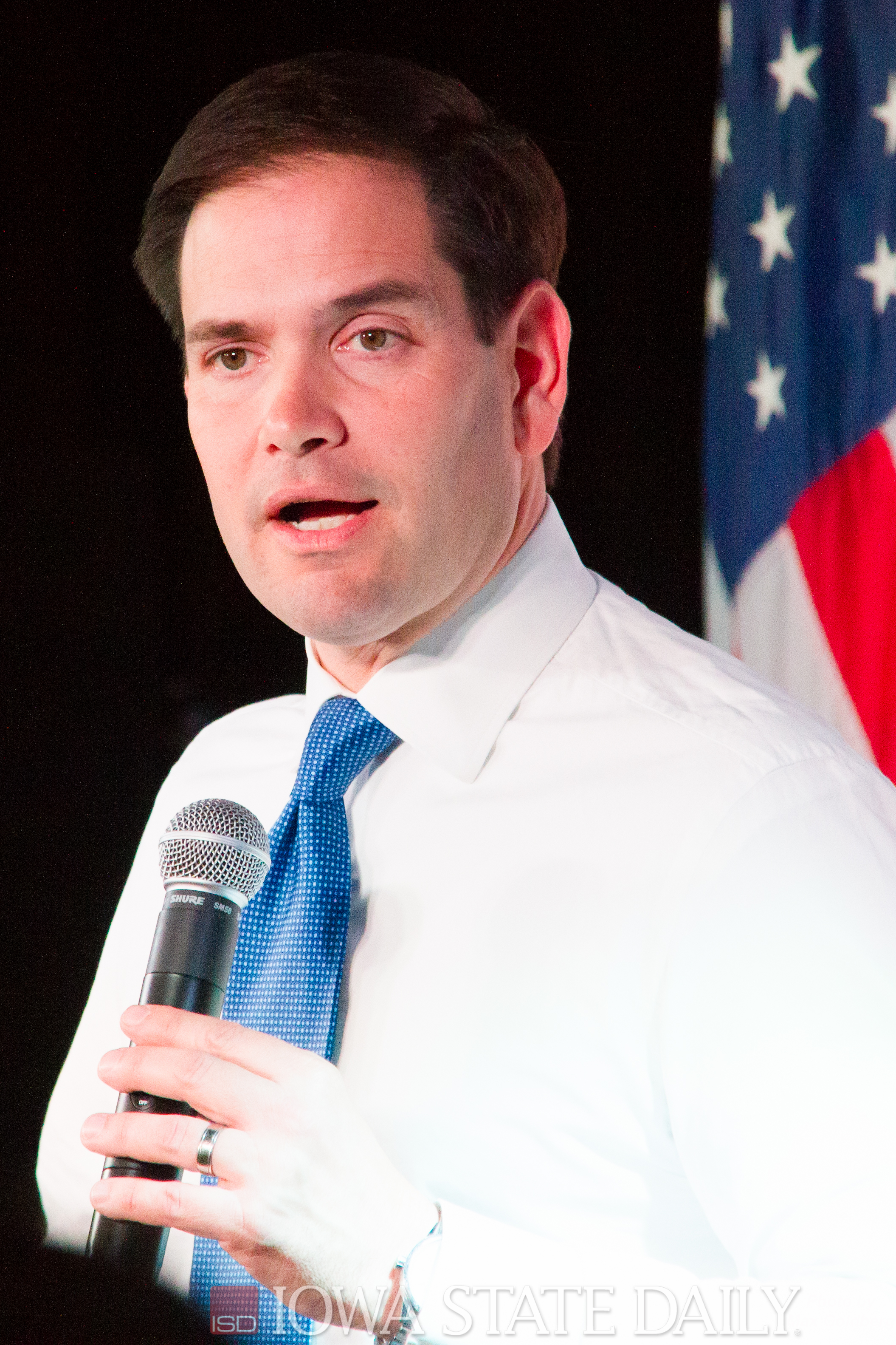 Senator from Florida, and current Republican presidential hopeful Marco Rubio held a rally in the Maintenance Shop during the afternoon of Dec. 10. Rubio talked about tax reform, healthcare, and the education system in America.